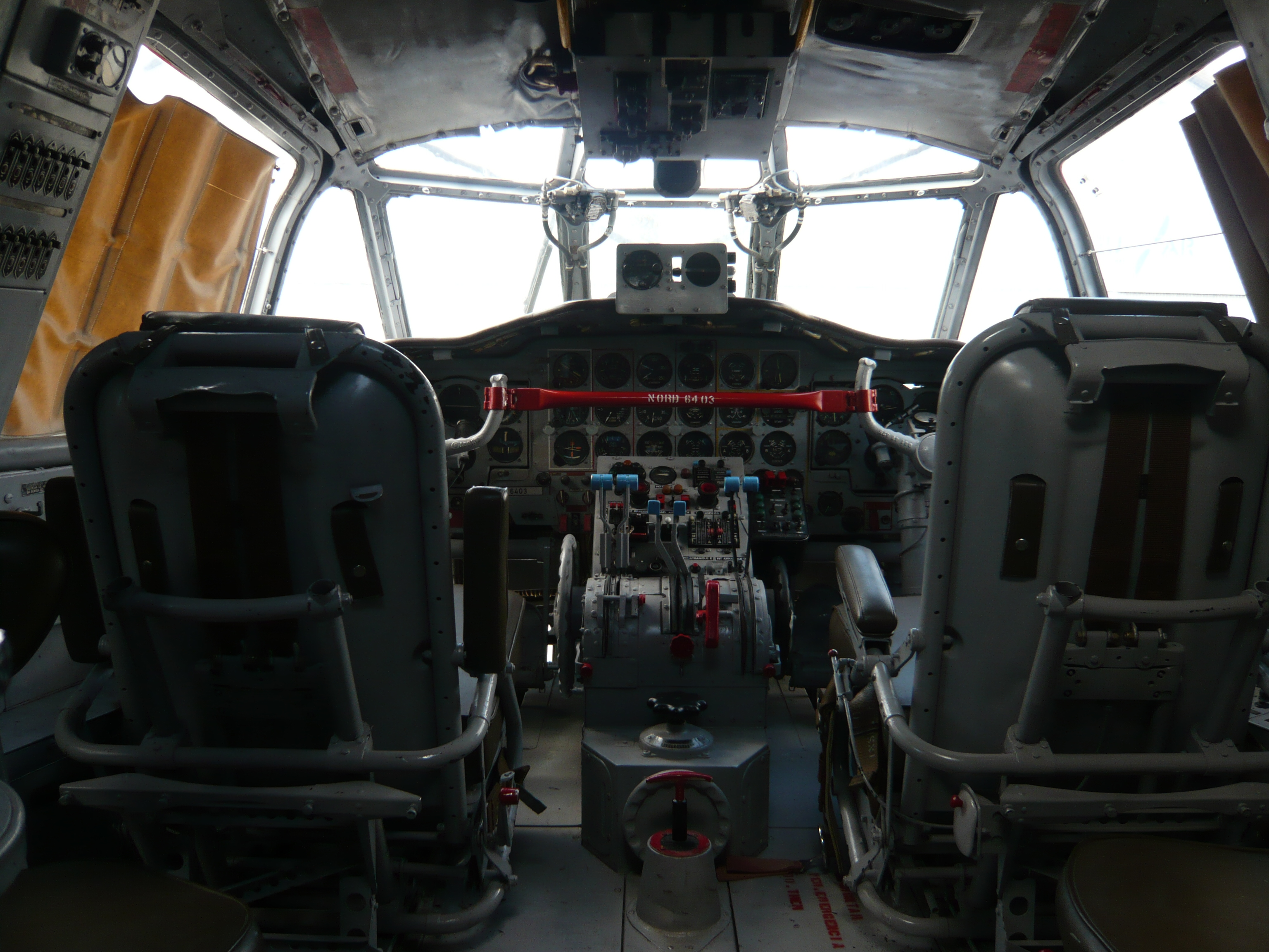 Noratlas cockipt